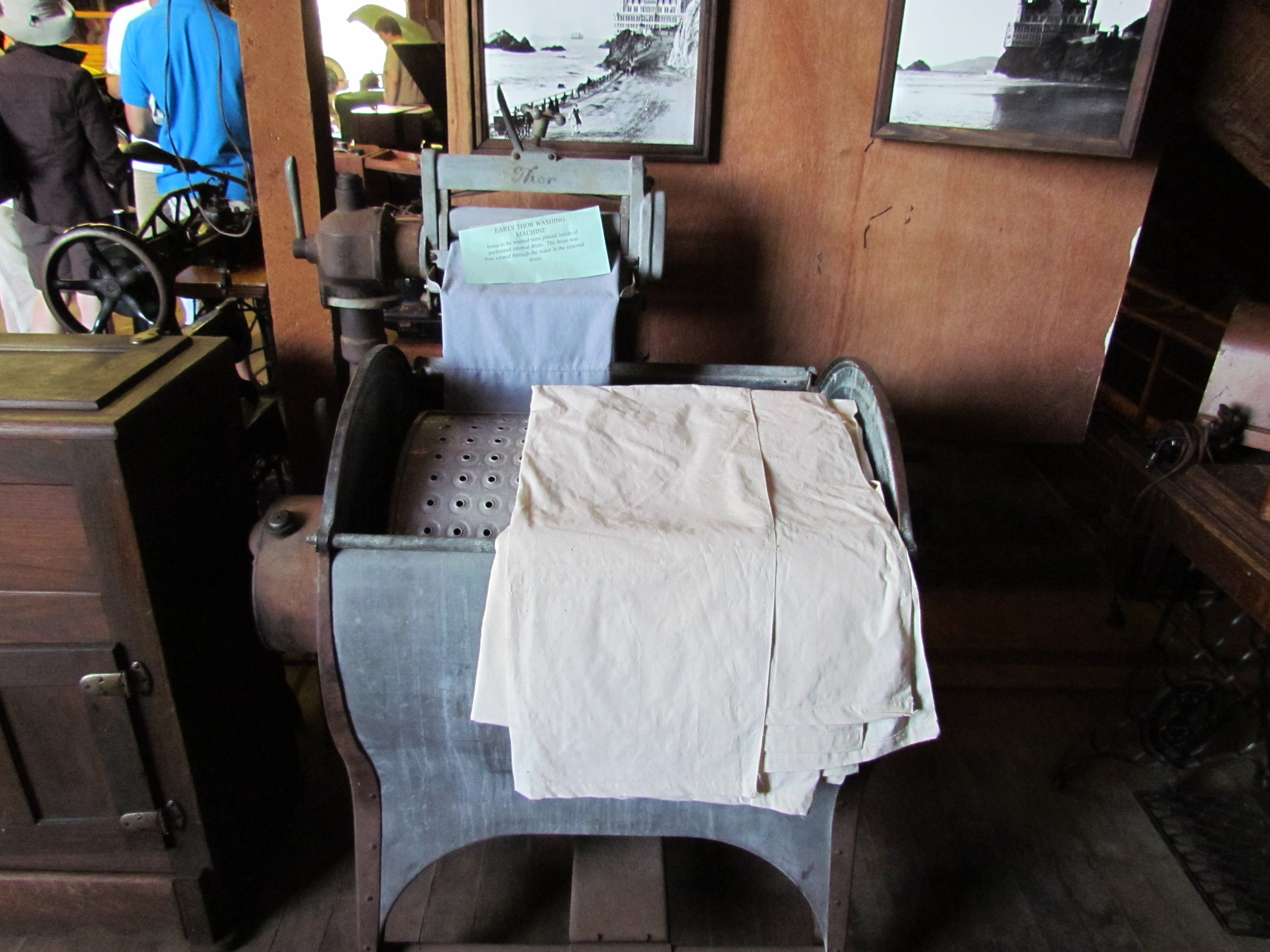 Thor washing machine Pengrove Power and Implement Museum, Penngrove, CA, July 9, 2011